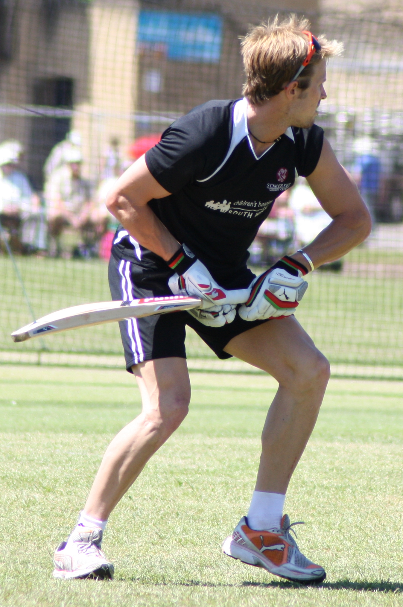 Nick Compton training prior to a CB40 match between Somerset and Worcestershire at the Recreation Ground, Bath.